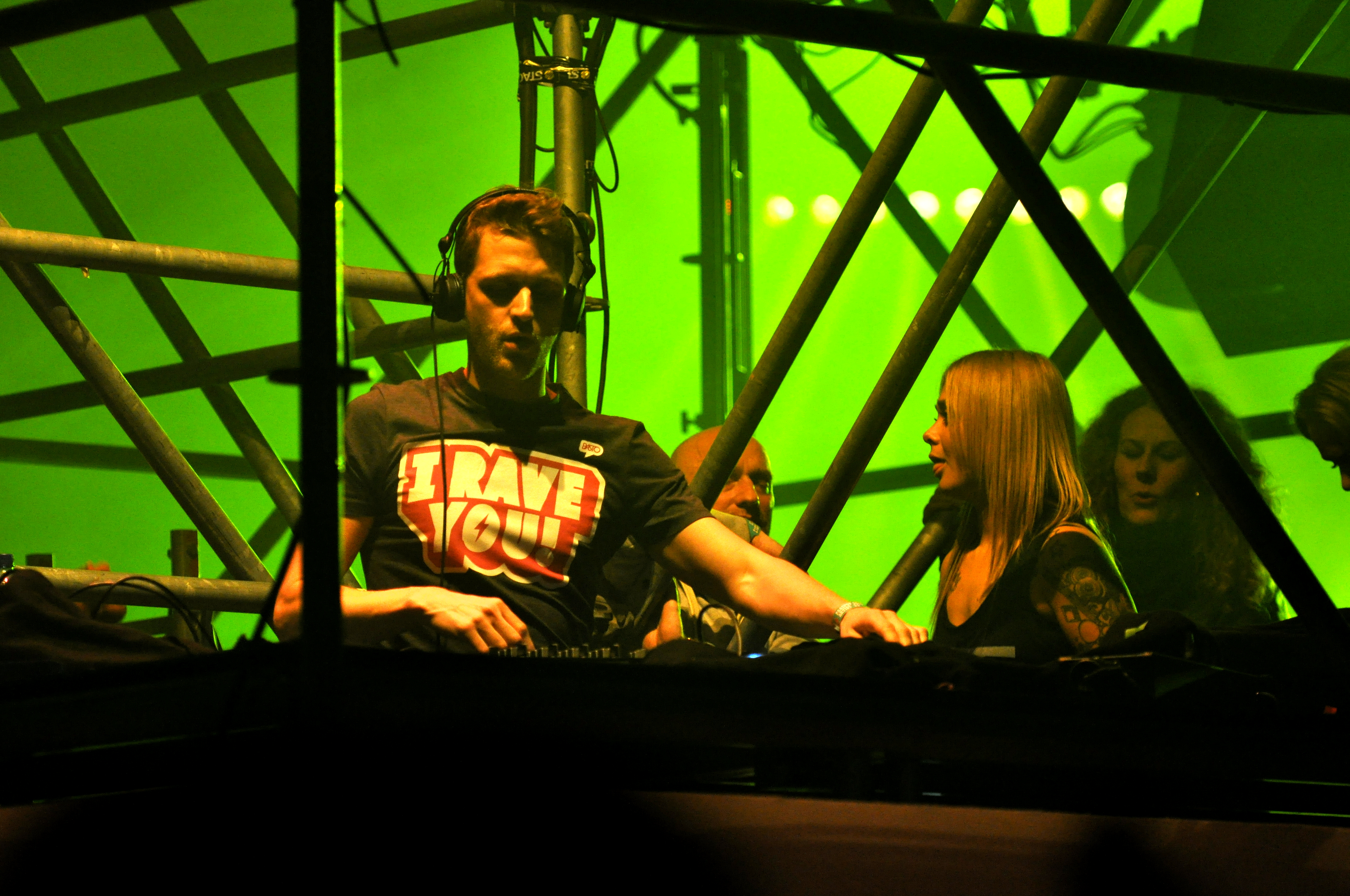 DJ Basto! at Paspop 2013, Schijndel, NL